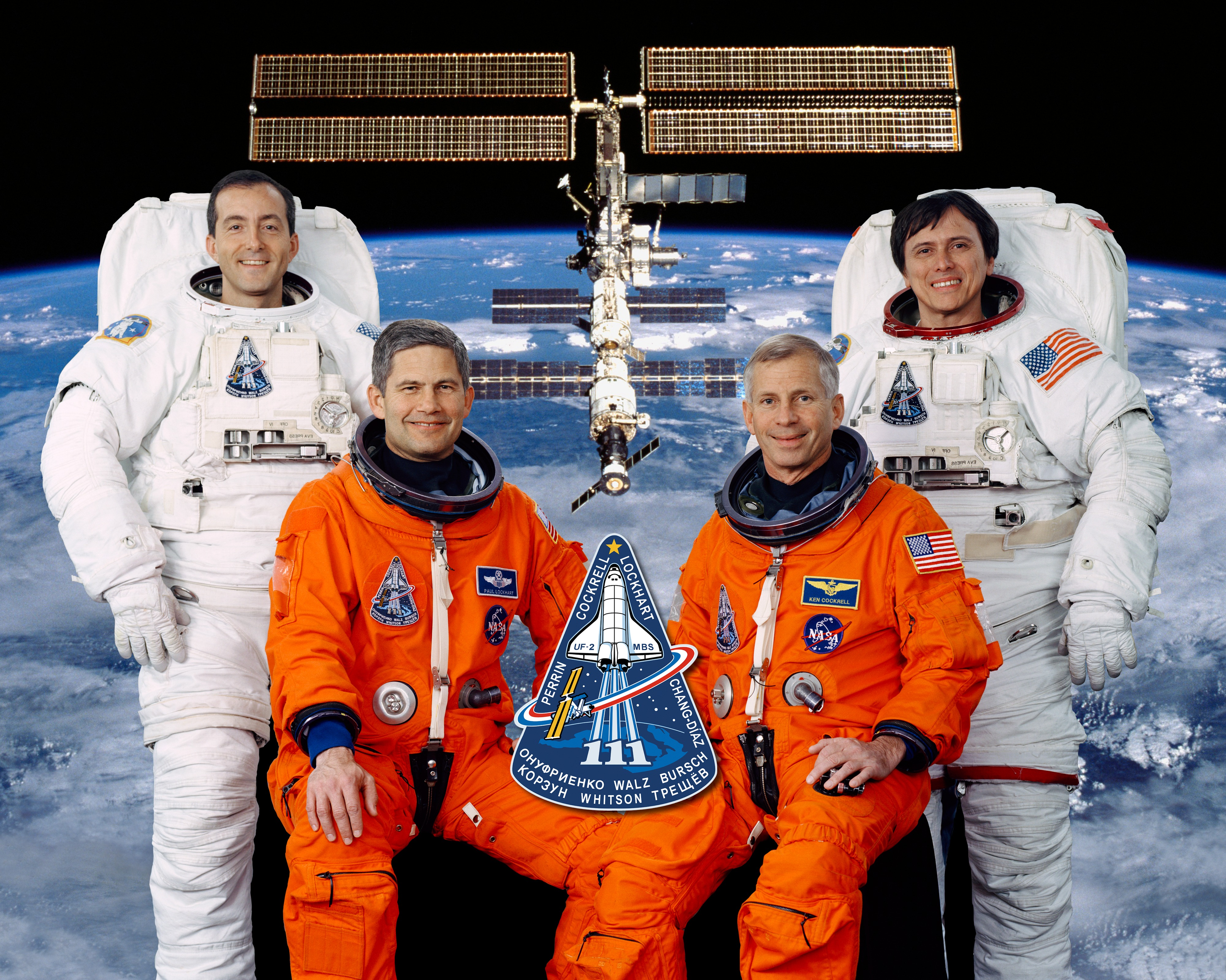 These four astronauts comprise the prime crew for NASA's STS-111 mission. Astronaut Kenneth D. Cockrell (front right) is mission commander, and astronaut Paul S. Lockhart (front left) is pilot. Astronauts Philippe Perrin (rear left), representing the French Space Agency, and Franklin R. Chang-Diaz are mission specialists, assigned to extravehicular activity (EVA) work on the International Space Station (ISS).